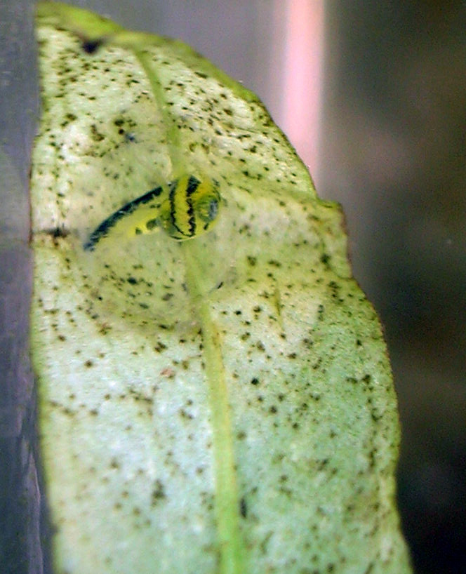 Triturus cristatus egg almost hatched, the Netherlands